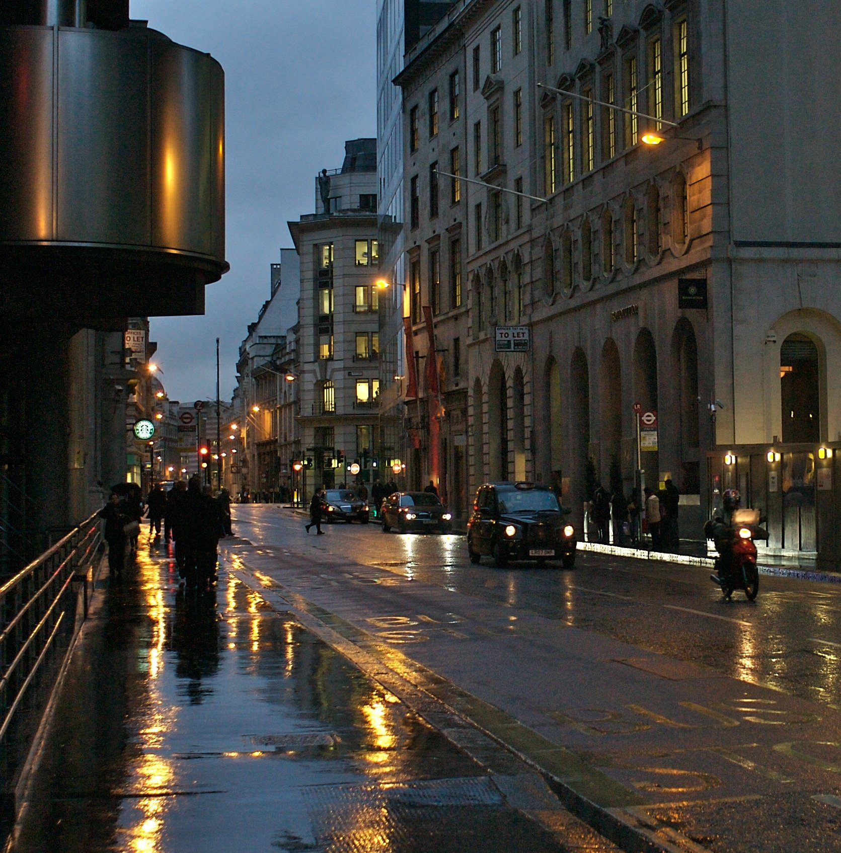 The western portion of Leadenhall Street in the City of London